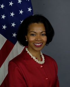 Gina Abercrombie-Winstanley, US Ambassador to Malta